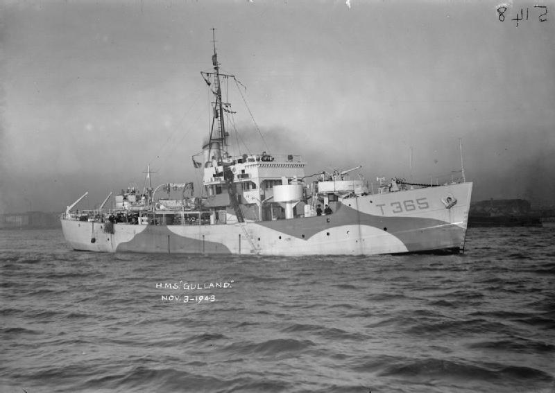 Photograph of British Isles class naval trawler HMT Gulland (T239).